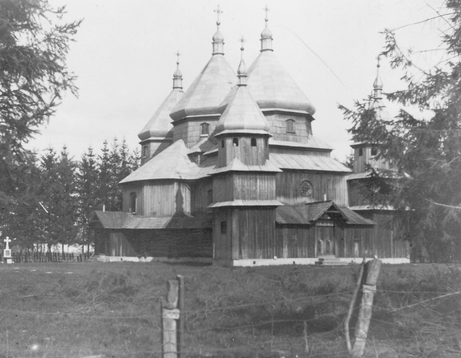 Church in Lucavățu de Jos, Vijnița, Ukraine (image from the archive of the Metropolitan of Moldavia, 1936, free of copyright)